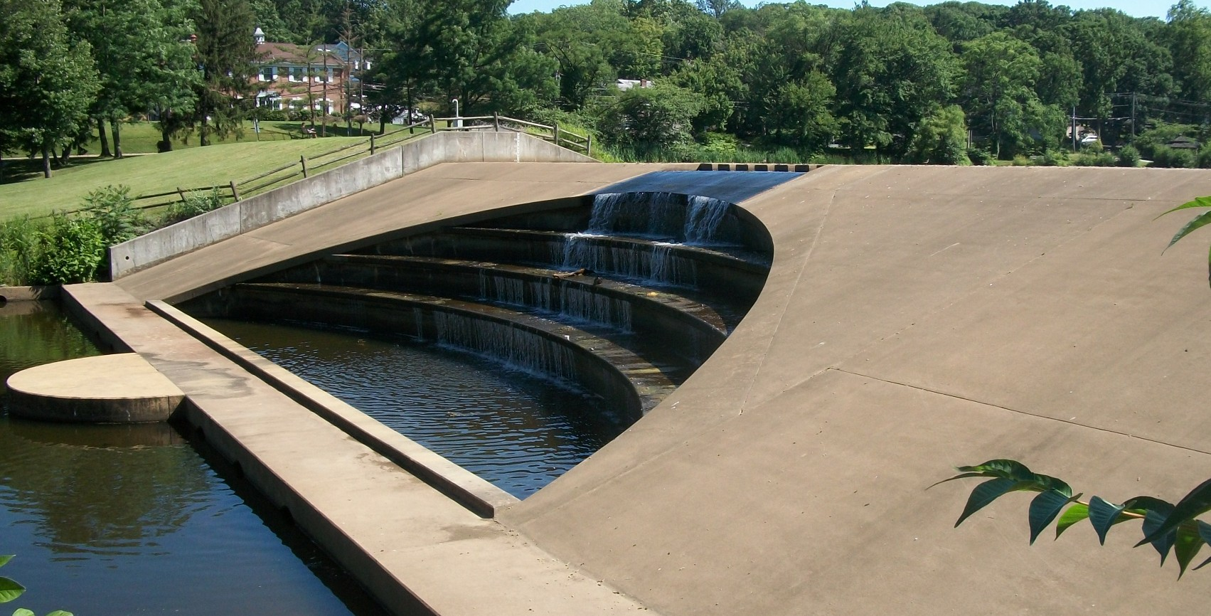 Watchung Lake is to the right. This dam has cascading levels.